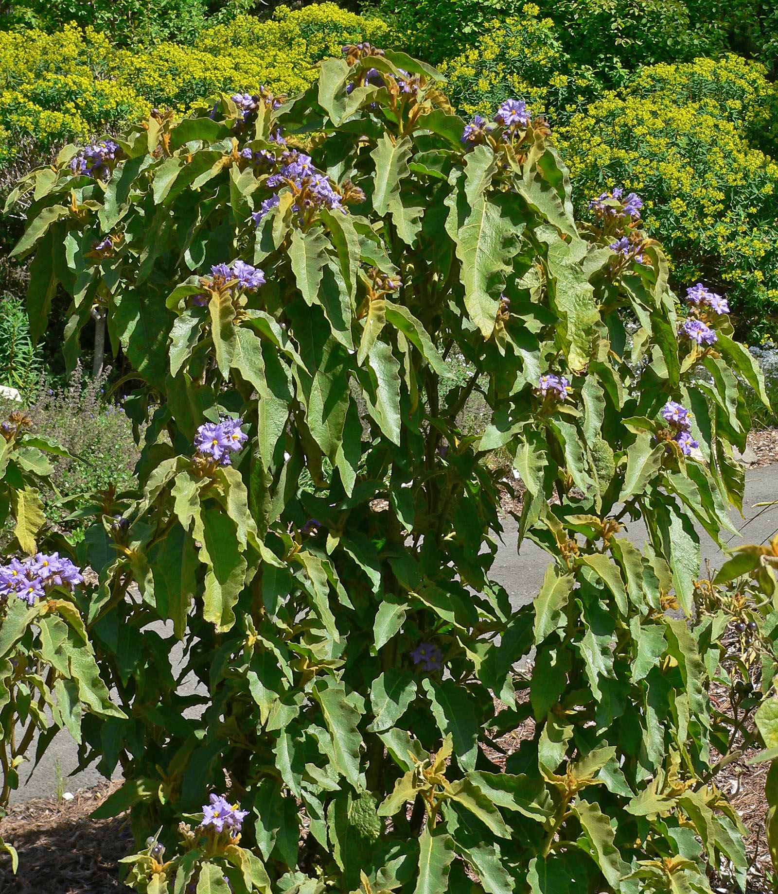 Solanum hispidum at the University of California Botanical Garden, Berkeley, California